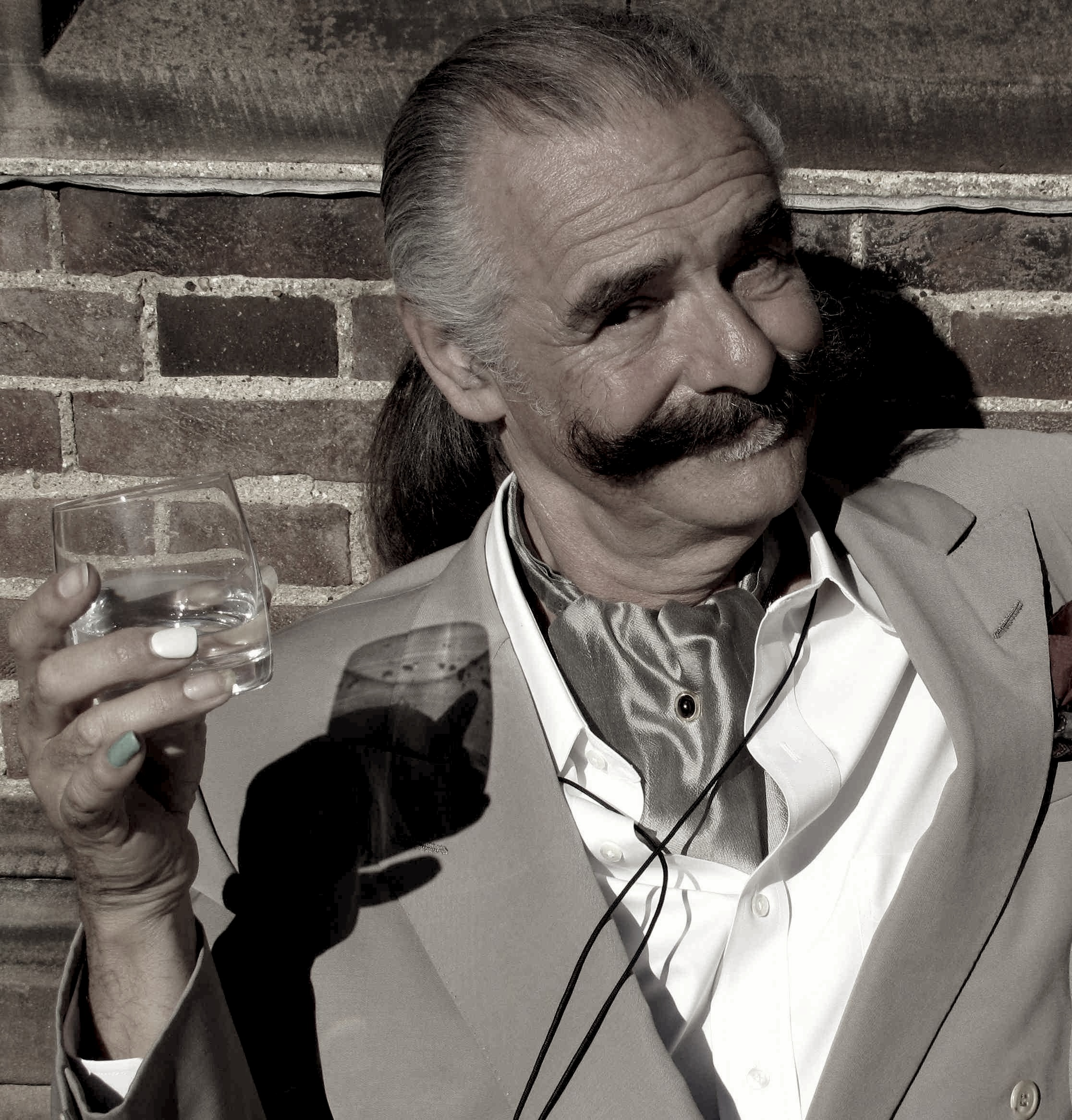 Photo head shot